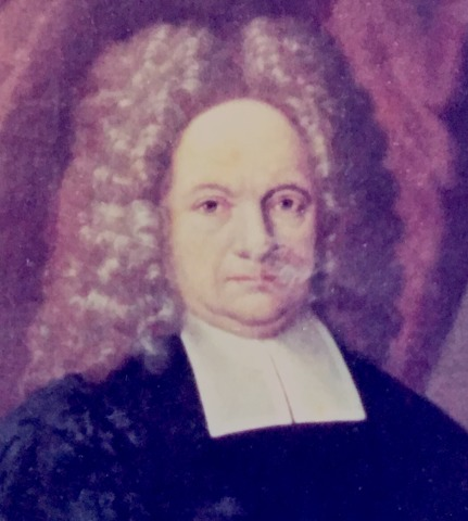 Martin Chilian Stisser um 1700